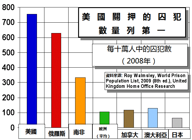 Selected incarceration rates worldwide. The stats source is the World Prison Population List, 8th edition. PDF file. By Roy Walmsley. Published in 2009. International Centre for Prison Studies. School of Law, King's College London. See also the latest data here: World Prison Brief - Highest to Lowest Figures. Compare many nations. Select from menu: prison population total, prison population rate, percentage of pre-trial detainees / remand prisoners within the prison population, percentage of female prisoners within the prison population, percentage of foreign prisoners within the prison population and occupancy rate. Traditional Chinese version.